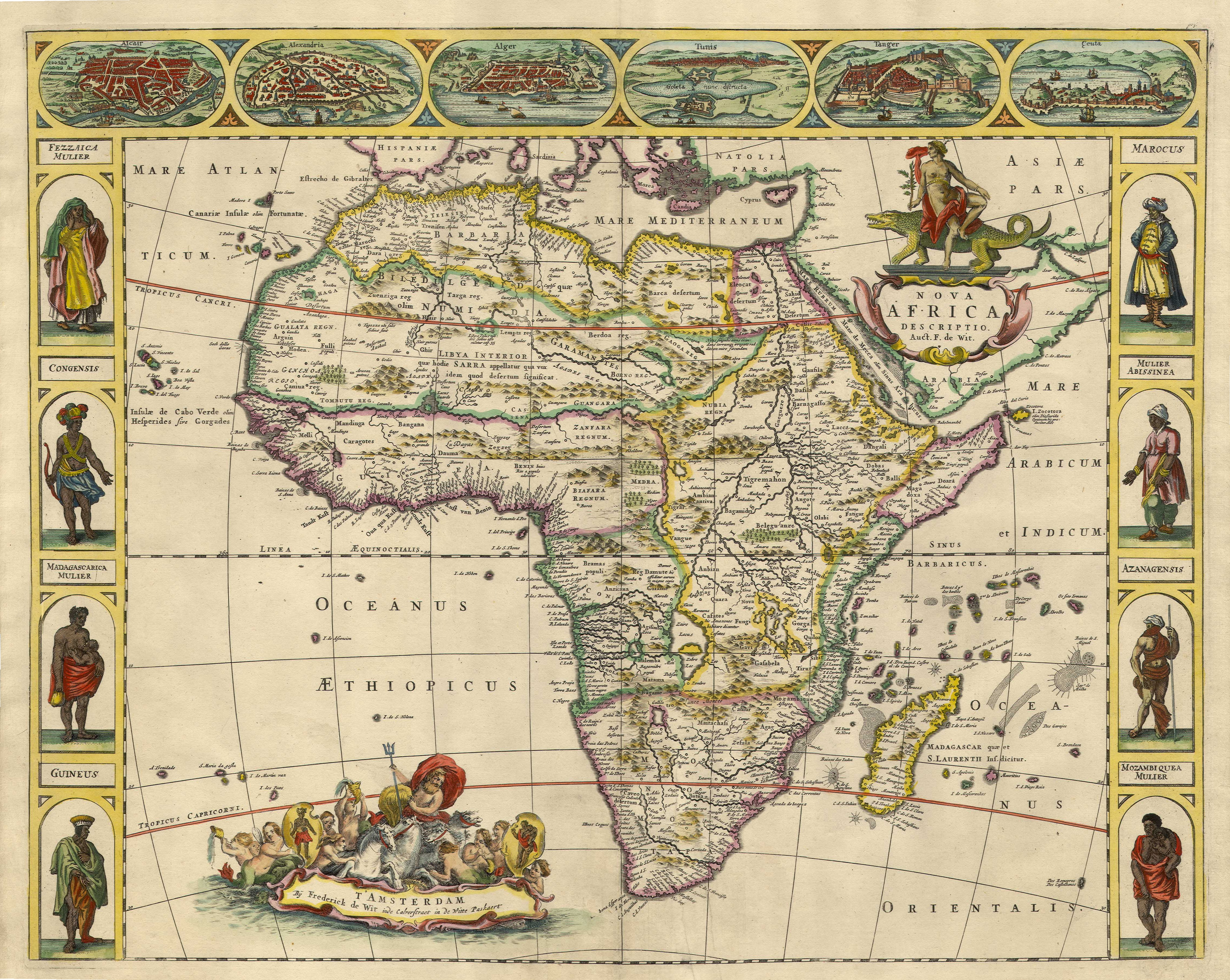 ِAfrika map FIRST edition : 1660 Produced using copper engraving